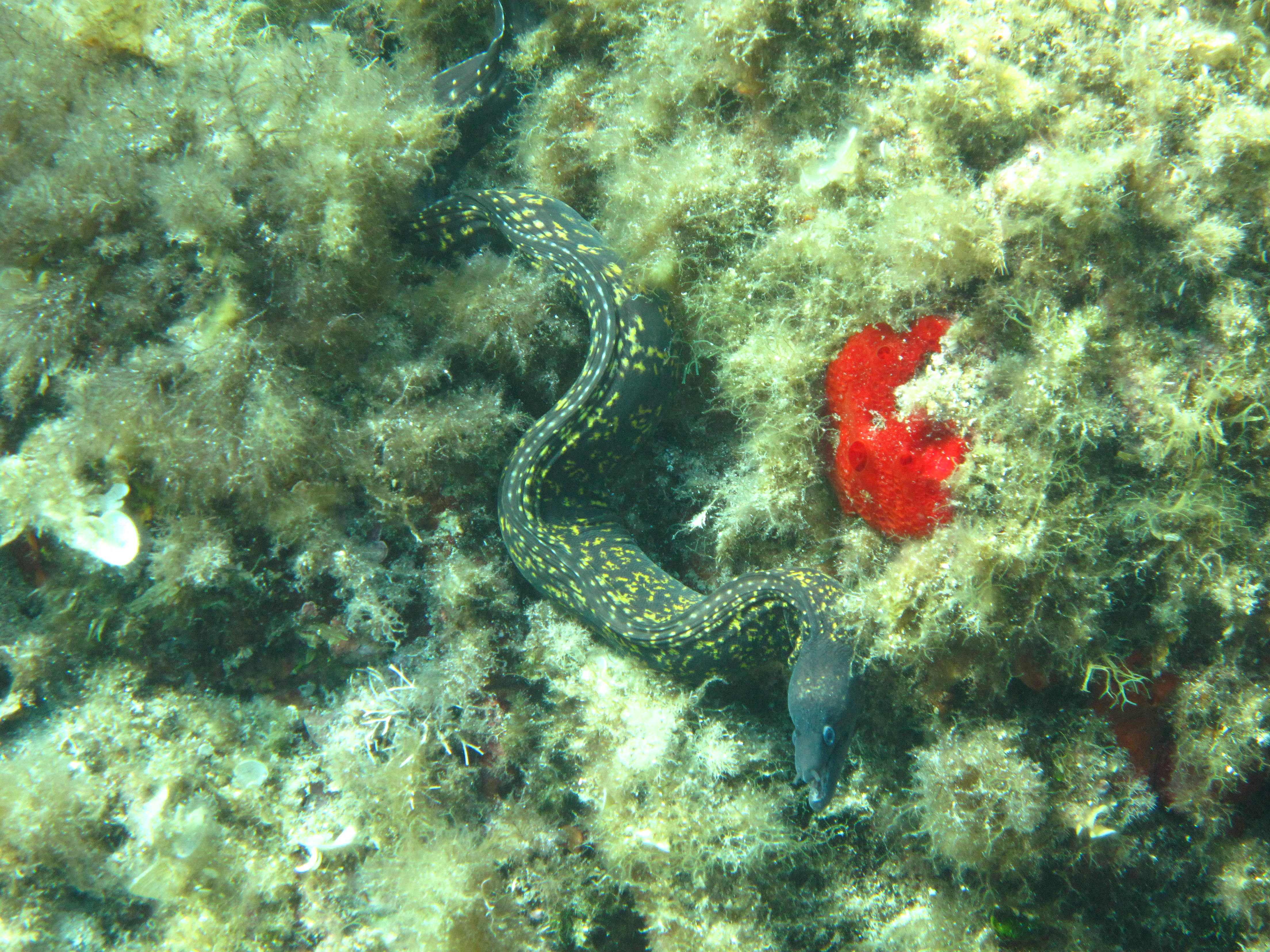 Muraena helena - Mediterranean Sea - Corsica - Calvi